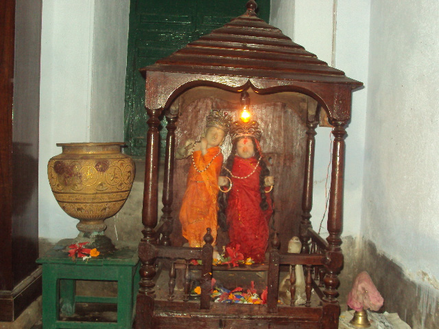 Temple of Sarat Chandra.